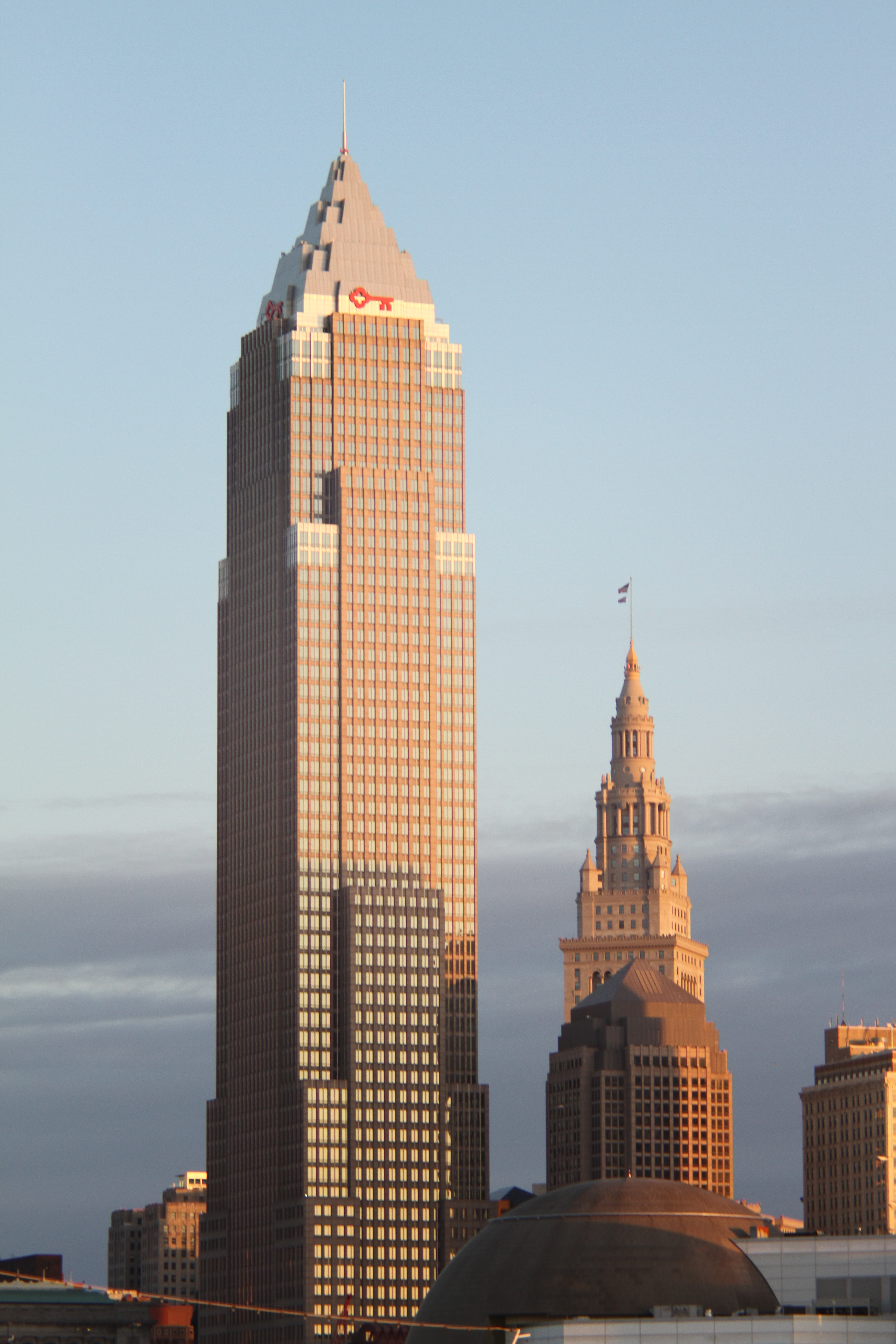 Key Tower rises in front of the Terminal Tower in downtown Cleveland, Ohio